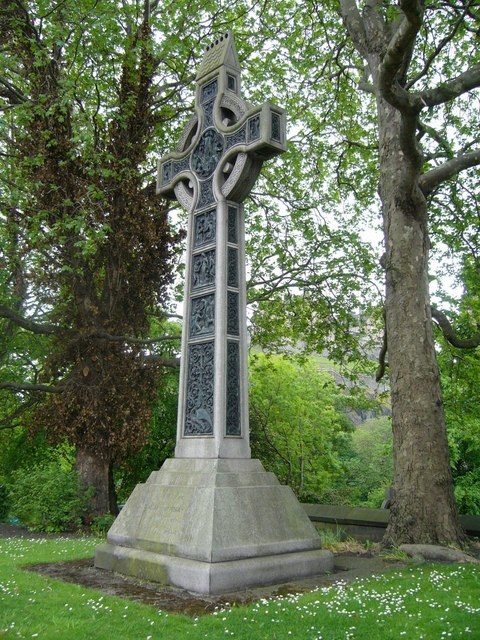 Dean Ramsay Memorial Memorial in the form of a Celtic cross, raised by public subscription, to the memory of Dean Ramsay, author of 'Reminiscences Of Scottish Life And Character', who died in 1872. It stands in the grounds of St John's Scottish Episcopal Church at the west end of Princes Street. Ramsay was a respected philanthropist who helped found Trinity College, Glenalmond in Perth. His extremely popular book ran to twenty-two editions.